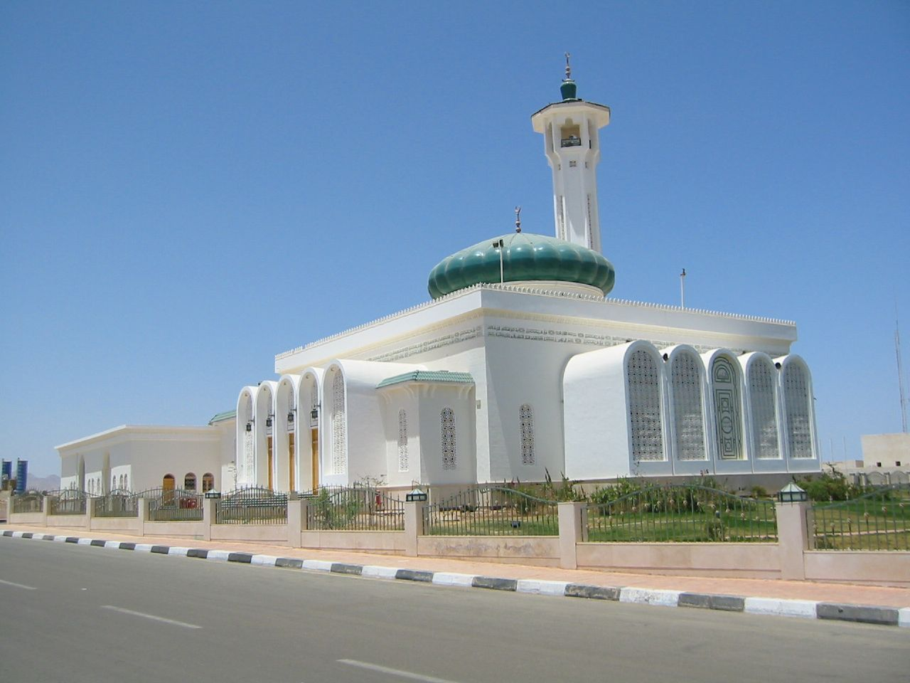 Al-Salam Mosque in Sharm El Sheikh